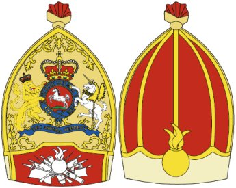 Hanoverian Infantry IR 11A de Cheusses --Mitre Cap 1757